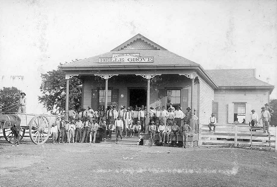 Bell Grove Plantation Commissary, Iberville Parish, Louisiana.